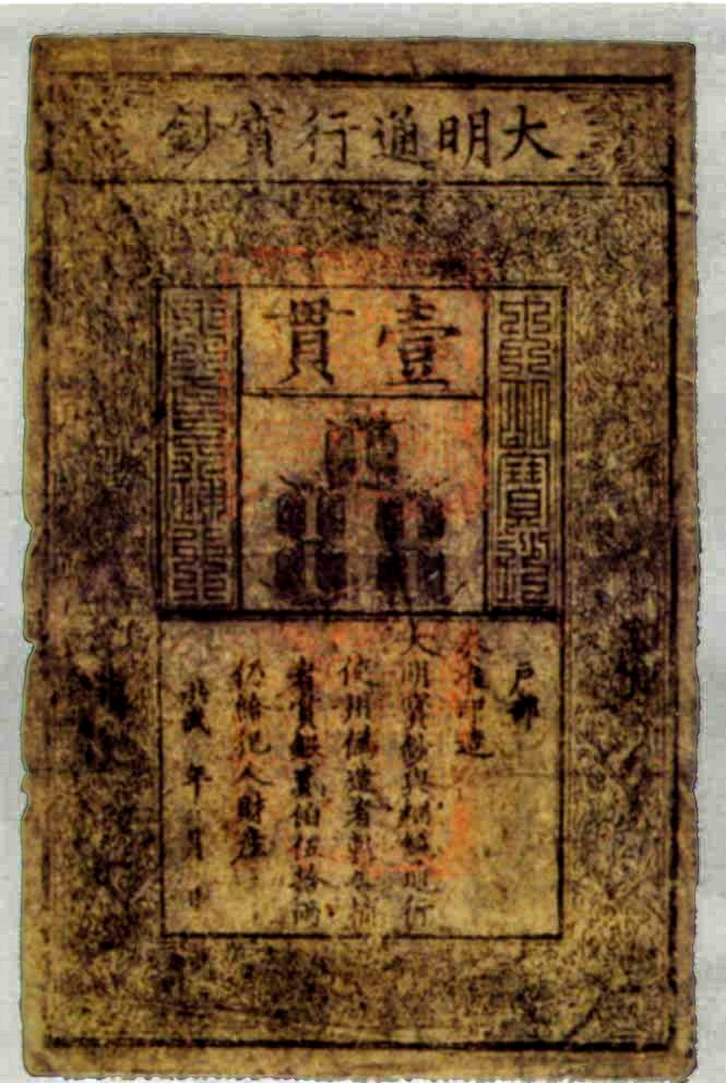 A Ming Dynasty (about 400, 500 years ago) banknote (paper-based, printing)